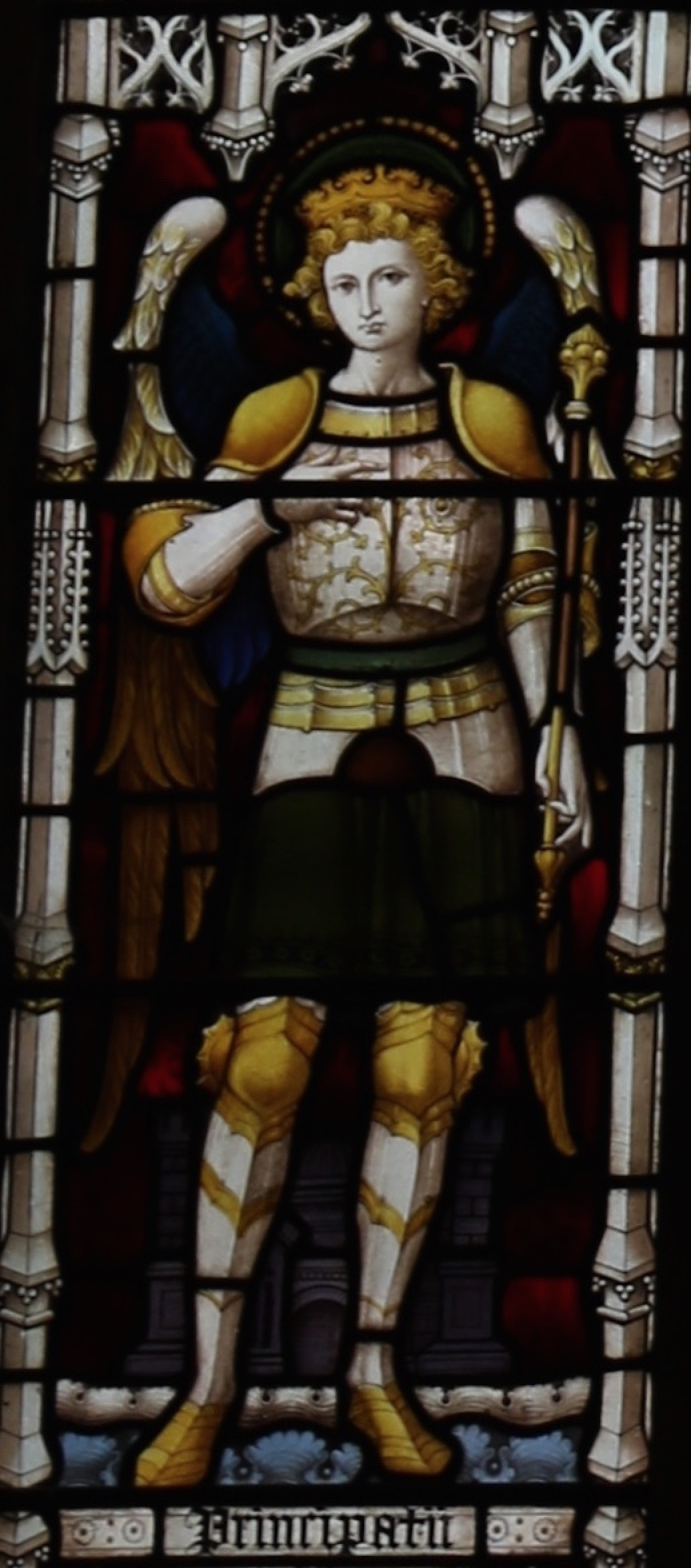 Angelic figure represents the Principalities, west window of the Church of St Michael and All Angels, Somerton, Somerset, England.